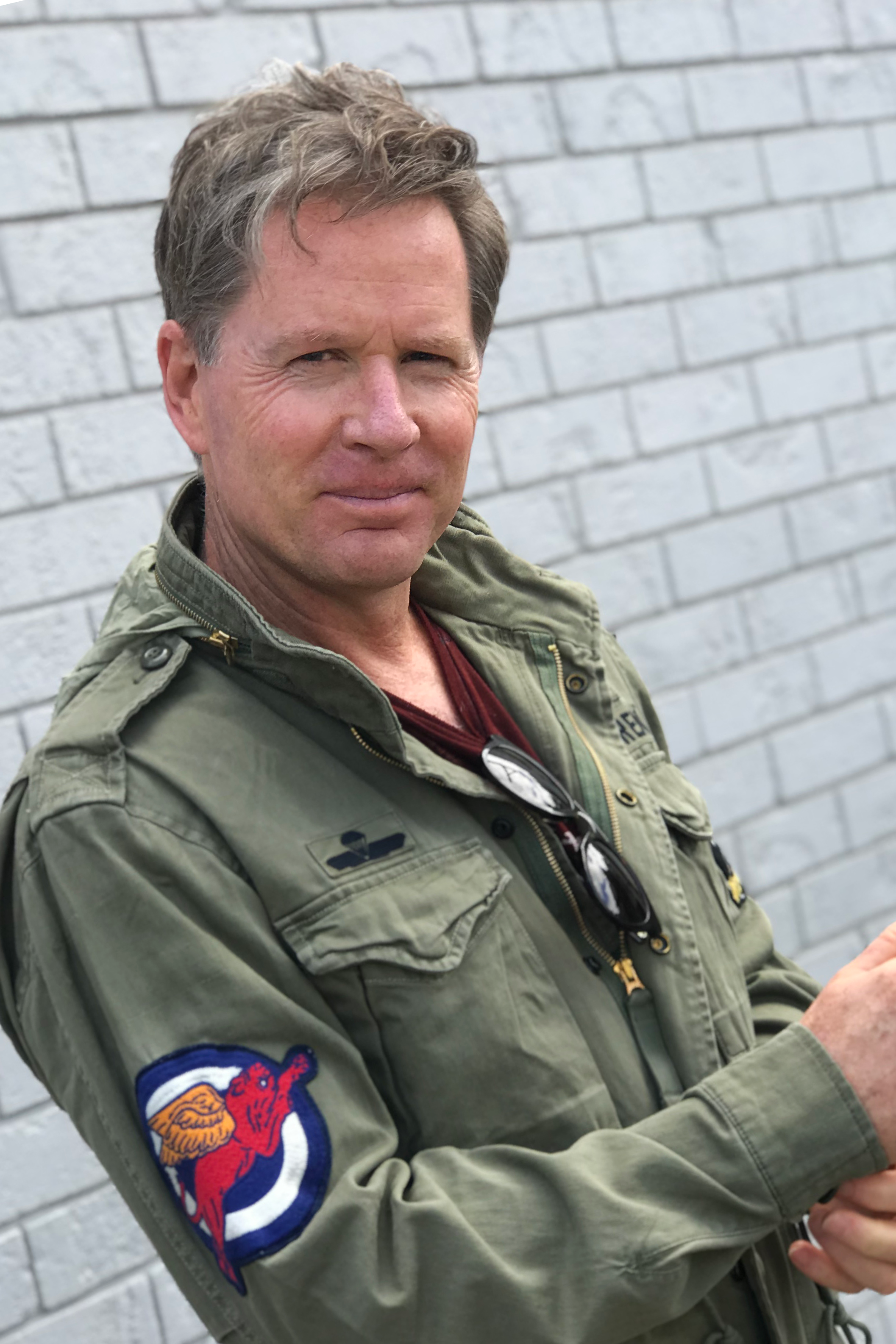 Craig Graham 2018